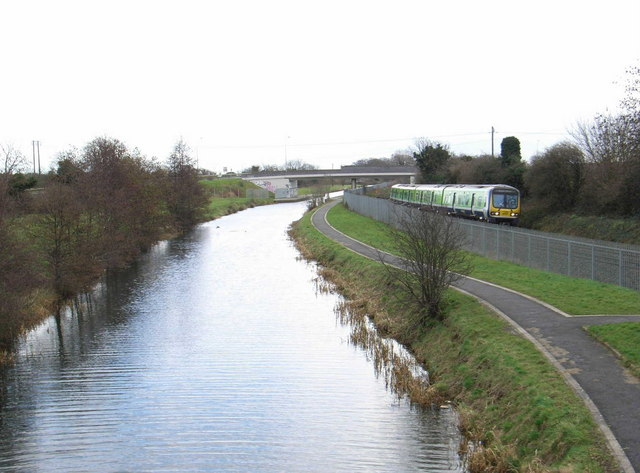 Royal Canal at Castleknock The Royal Canal pictured from the disused Ranelagh Bridge near the M50/N3 junction. The commuter train is bound for Maynooth. The 11th lock can just be seen in the distance.